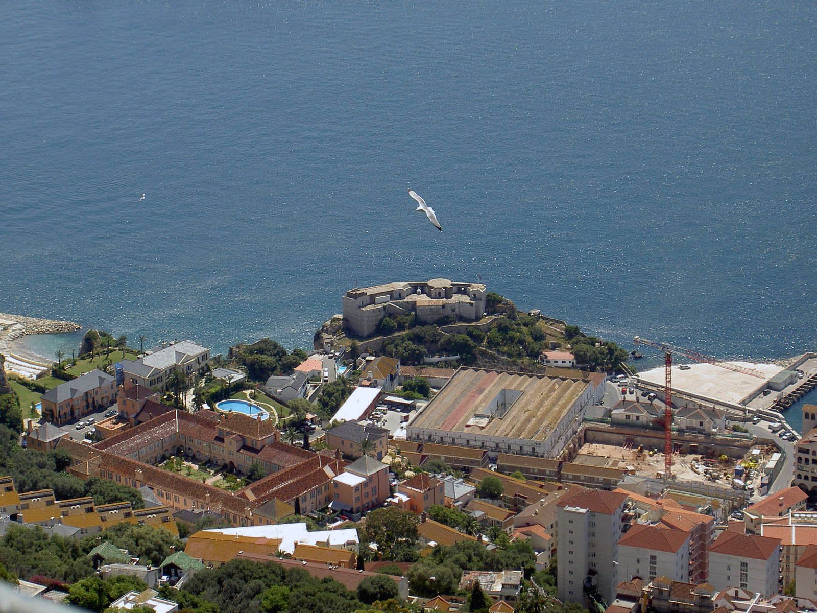 Old fortification along the coast of Gibraltar.